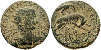 Judaea, Aelia Capitolina (Jerusalem). Herennius Etruscus, as Caesar. 250-251 CE. Æ 25mm (15.00 g). Radiate and draped bust right She-wolf and twins right, legionary aquila in the background. Meshorer, Aelia 168 (photos of 168 and 168a are switched); Rosenberger -; SNG ANS -; Hendin -. Near VF, rough desert patina. ($300)